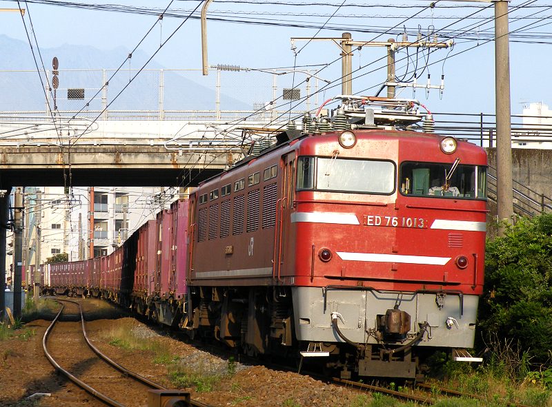 Freight train headed by JR Freight electric locomotive ED76 1013 at Kagoshima